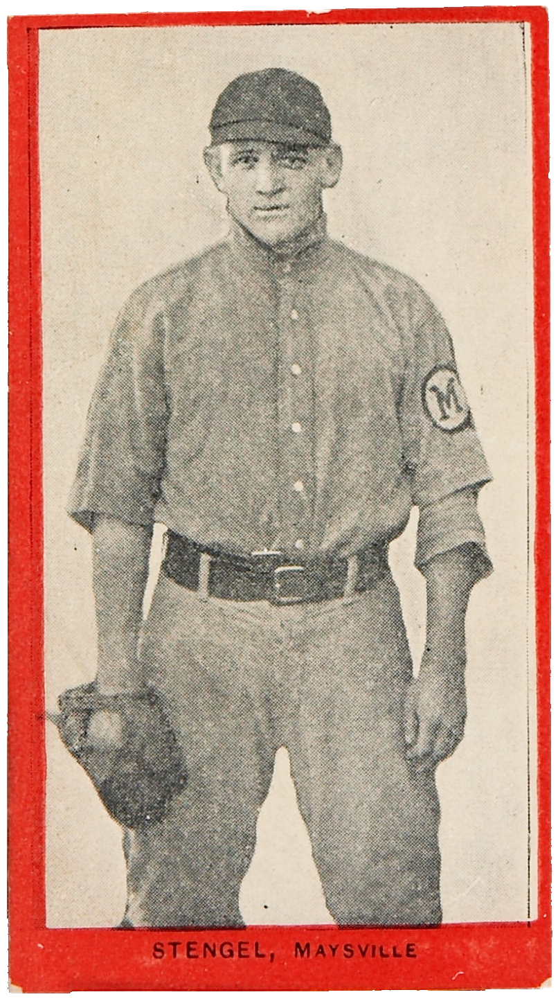 1910 T210 Old Mill Casey Stengel of the Blue Grass League's Maysville Rivermen